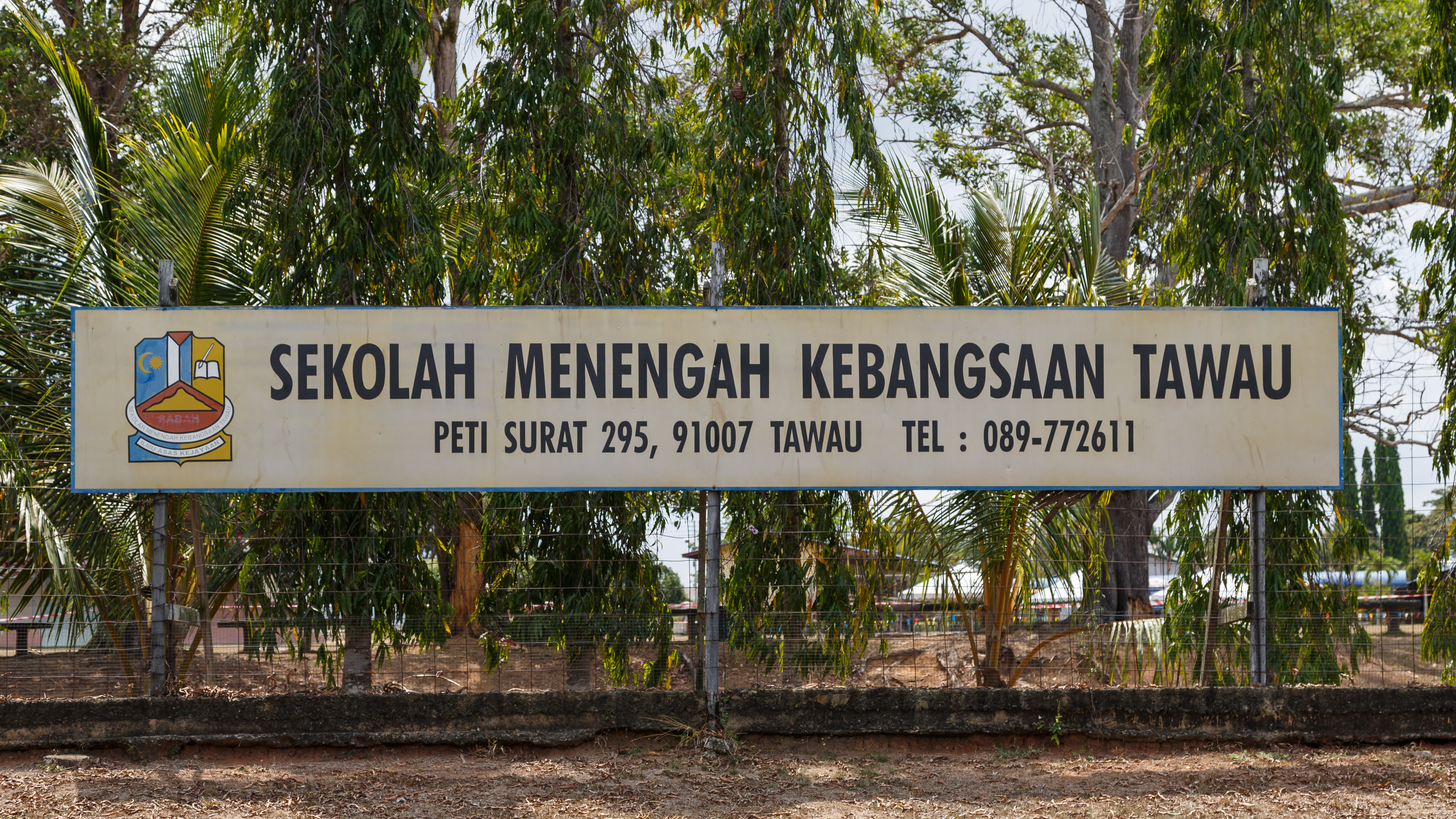 Tawau, Sabah: SMK Tawau (Sekolah Menengah Kebangsaan Tawau), a secondary school.